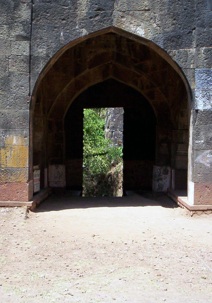 nilesh